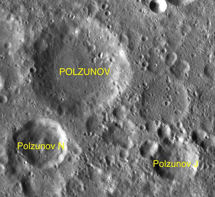 Part of the chart LAC-47 used for the presentation